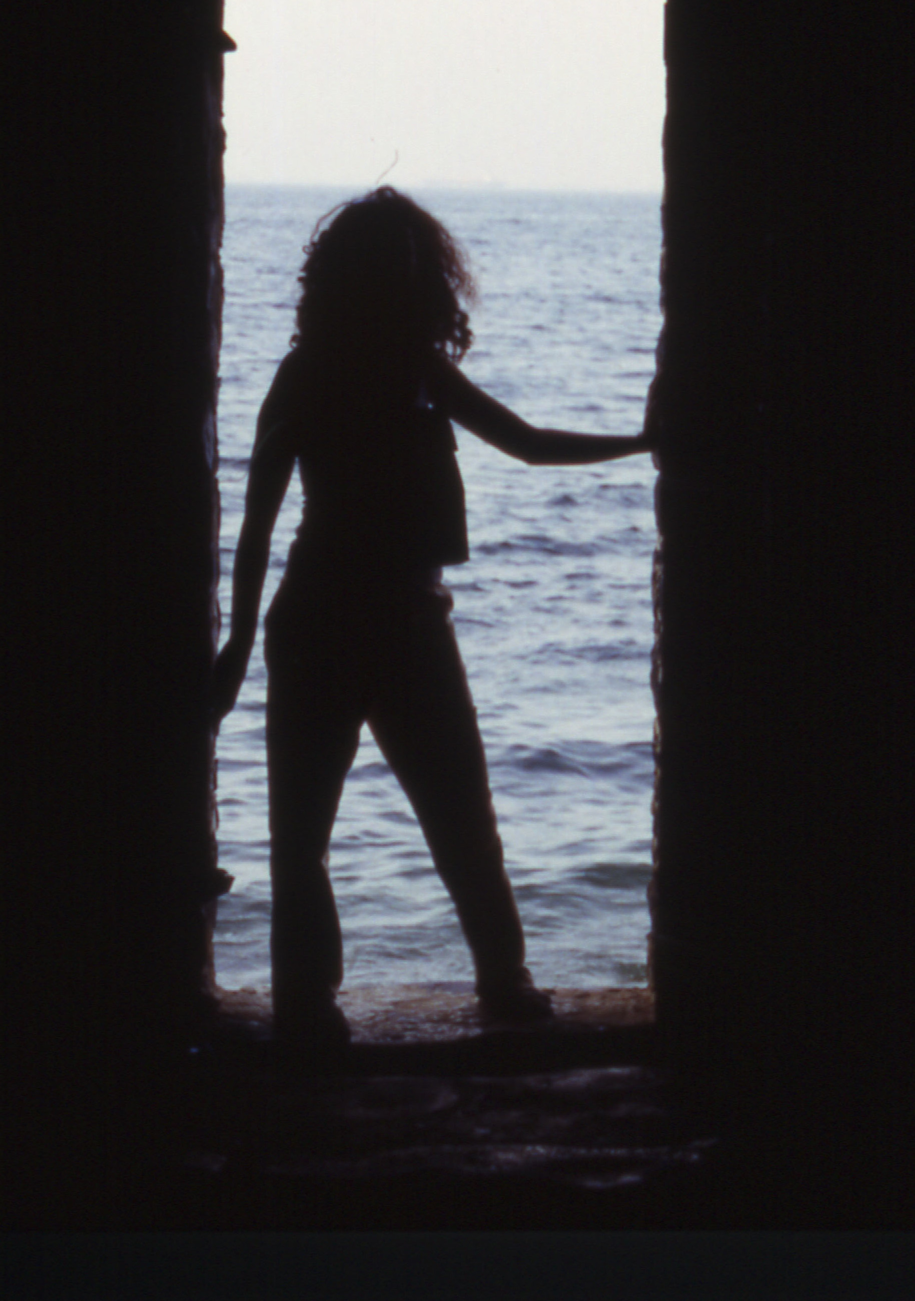 Dakar Biennale 2000. Zoulikha Bouabdellah. Photo by Iolanda Pensa.